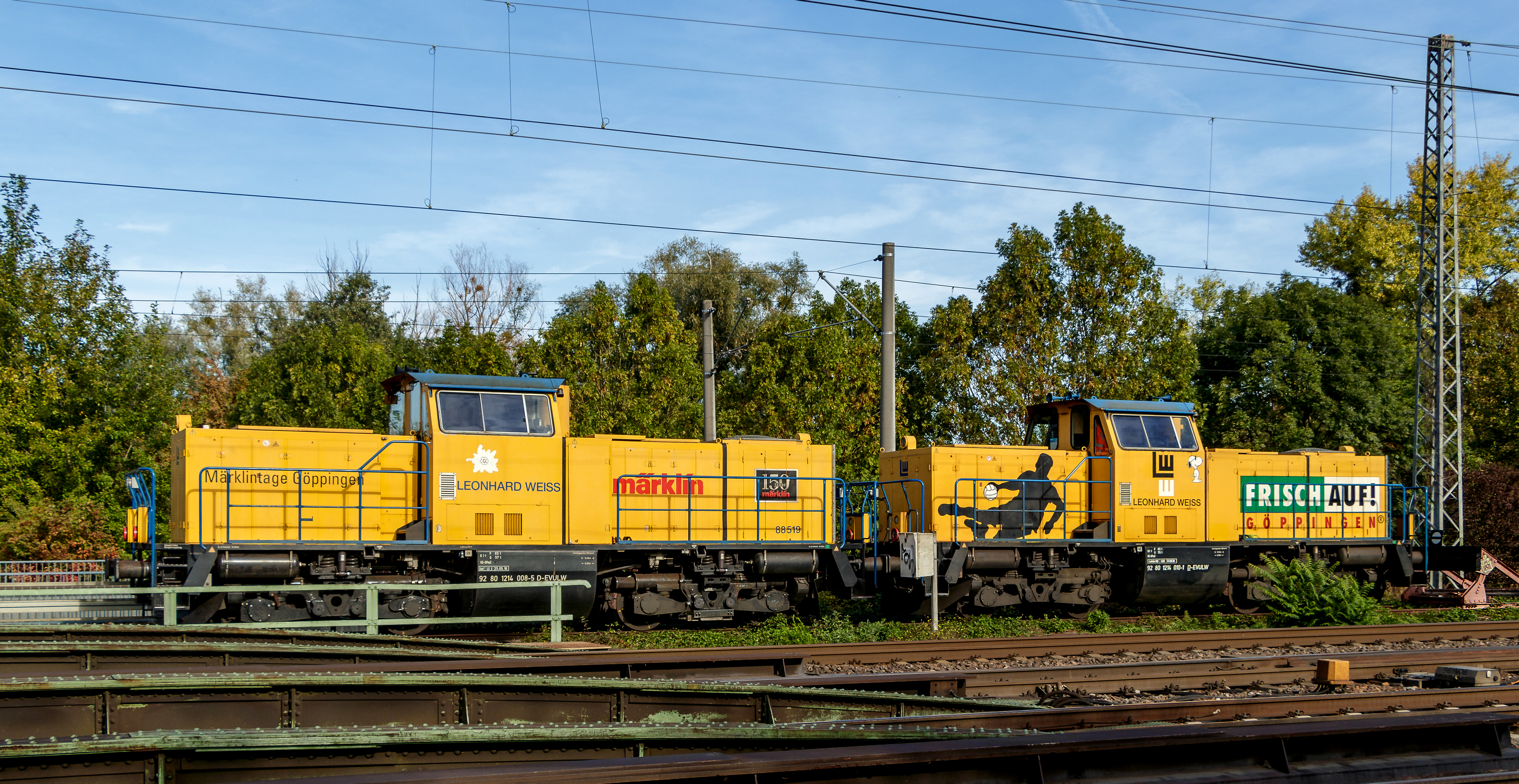 Two diesel engines V100 ALS BR 214, the 92 80 1214 008-5 D-EVULW, manufacturer MaK (Kiel-Friedrichsort), 1965, factory number 1000301, since 31.05.2008 belonging to LW - Leonhard Weiss GmbH & Co. KG, Göppingen, and the 92 80 1214 010-1 D-EVULW, manufacturer Jung (Kirchen (Sieg)), 1963, factory number 13664, since 28.06.2008 belonging to LW - Leonhard Weiss GmbH & Co. KG, Göppingen at the Station Karlsruhe-Durlach, Germany.